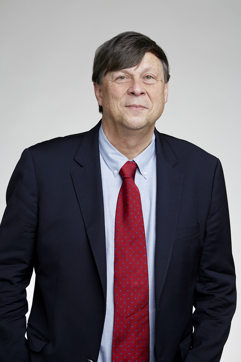 Mark Morris Davis (born 27 November 1952) ForMemRS is Director and Avery Family Professor of Immunology in the Institute for Immunity, Transplantation and Infection at Stanford University. Attribution: The Royal Society